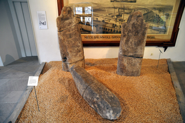 Bamberger Goetzen made in late triassic; in the Historical Museum Bamberg (Alte Hofhaltung); Bavaria, Germany.